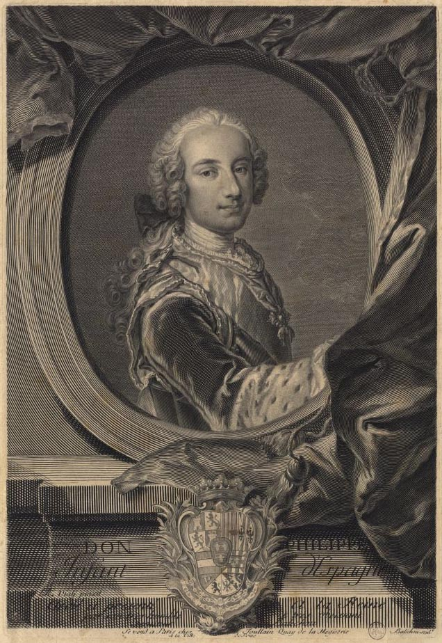 Portrait of Philip of Spain (1720-1765), later Duke of Parma